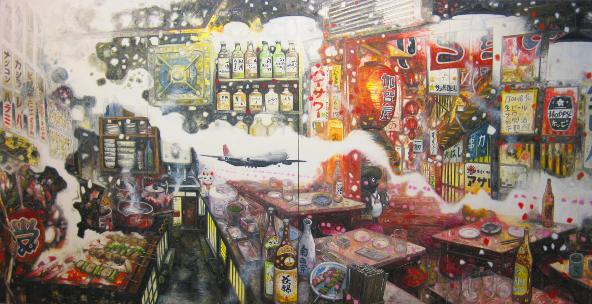 Oil on canvas, 227 x 444 cm / 90 x 175 inches, 21st Century Museum of Contemporary Art collection, Kanazawa. Image courtesy: ©Oscar Oiwa Studio, NY.